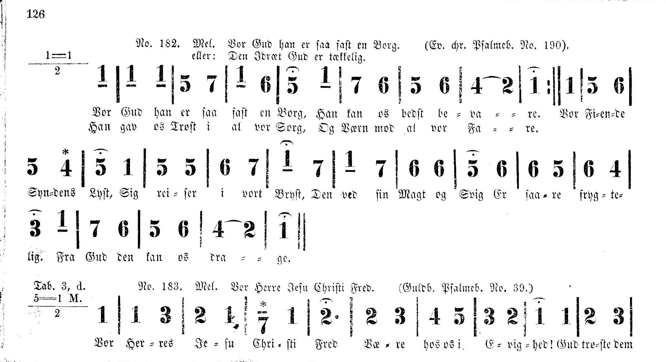 Kopi from norwegian book og chorals